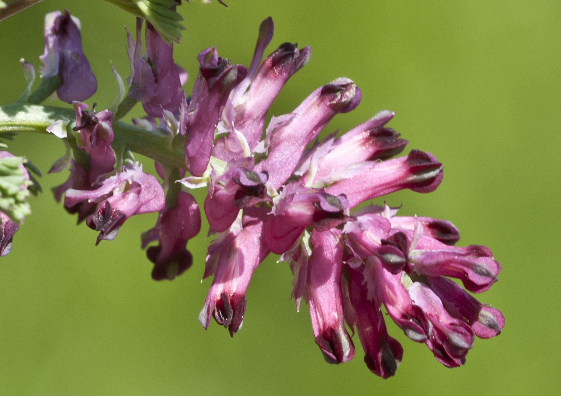 Flowers of Earth smoke (Fumaria officinalis) (pobably ssp cilicica). on side of a wheat field. Ceyhan - Adana, Turkey.